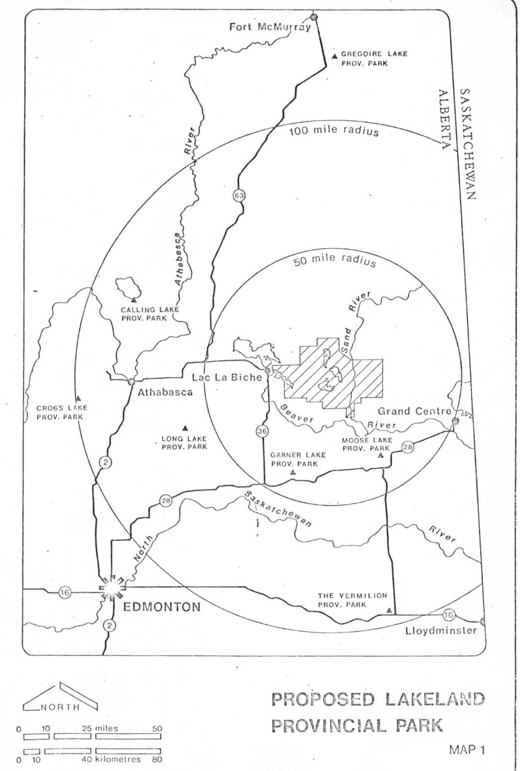 "Lakeland Provincial Park Proposal Summary"